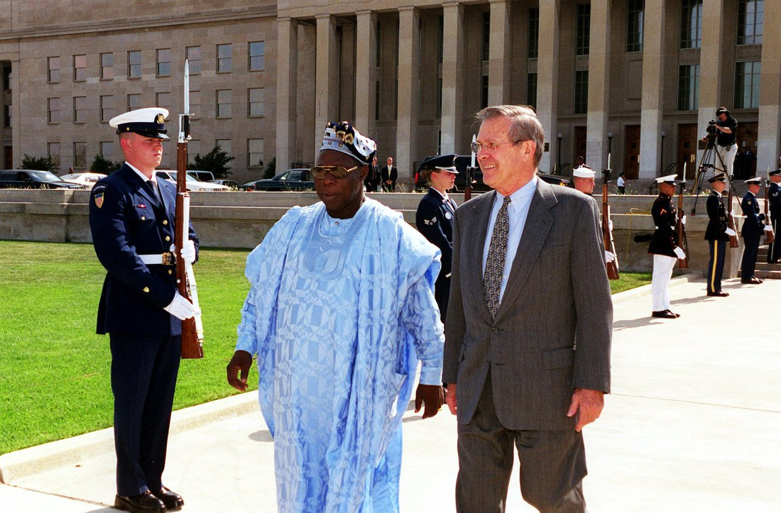 Secretary of Defense Donald H. Rumsfeld (right) escorts President Olusegun Obasanjo (left), of the Federal Republic of Nigeria, to the Pentagon parade field for a welcoming ceremony in his honor on May 10, 2001.